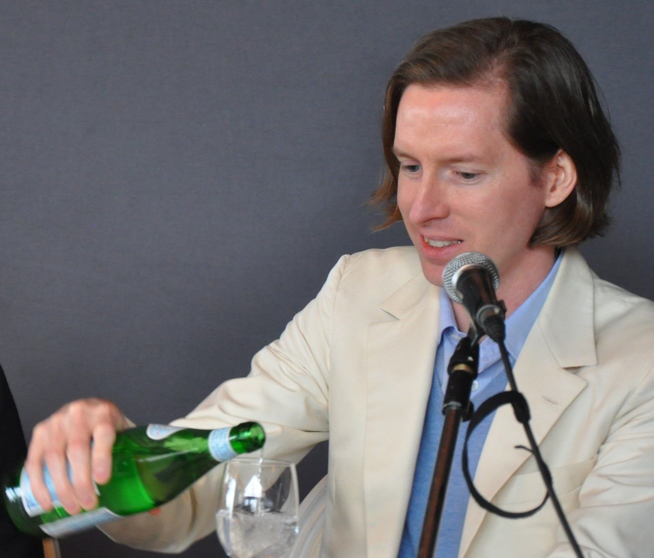 Wes Anderson in 2012.